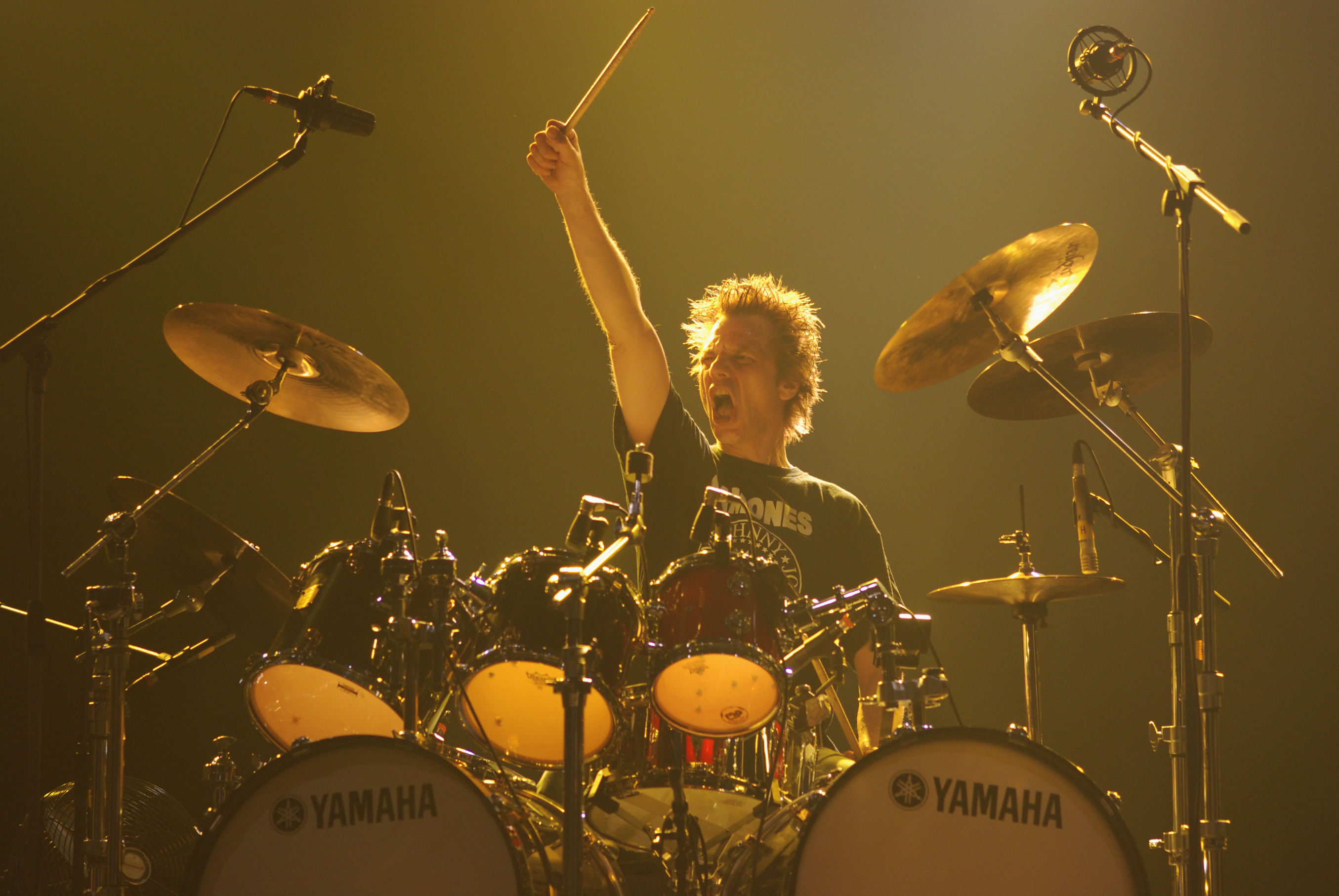 Carsten_Nielsen from Artillery during Metalmania 2008 festival